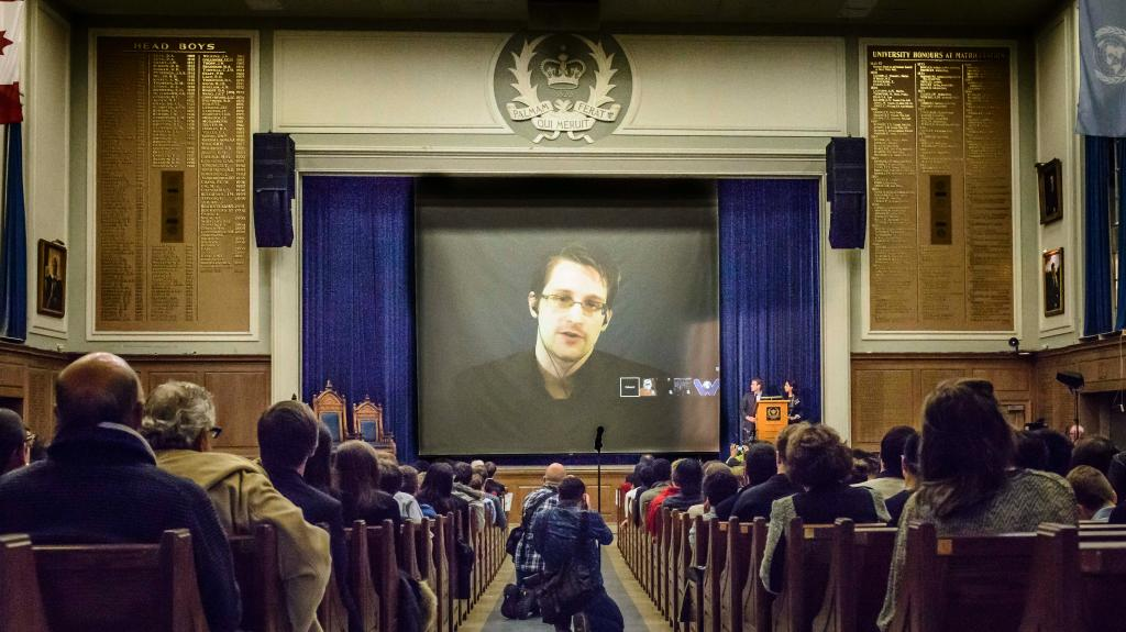 Photograph of Edward Snowden speaking at the 2015 World Affairs Conference in Laidlaw Hall at Upper Canada College